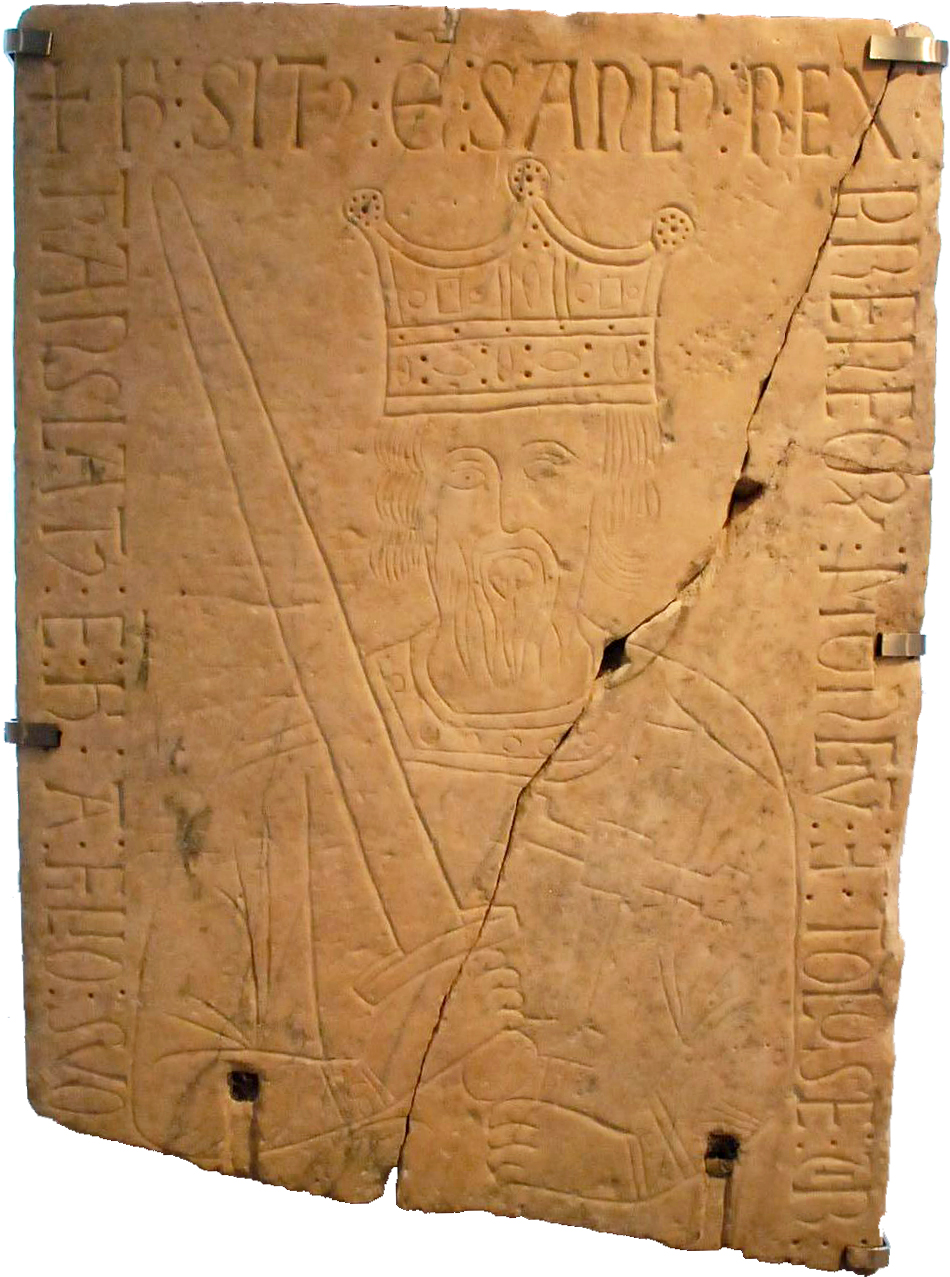 Burial laude of Sancho III "El Mayor" of Navarre. Museum of León.